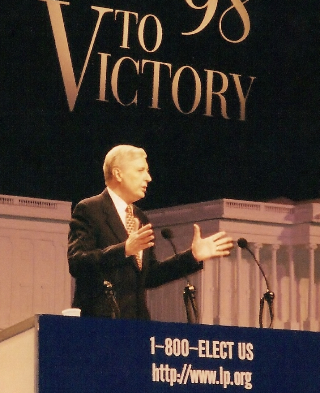 1996 Libertarian Party presidential candidate Harry Browne speaks at Libertarian Party 1998 National Convention in Arlington, VA. (Note: he also was year 2000 candidate).